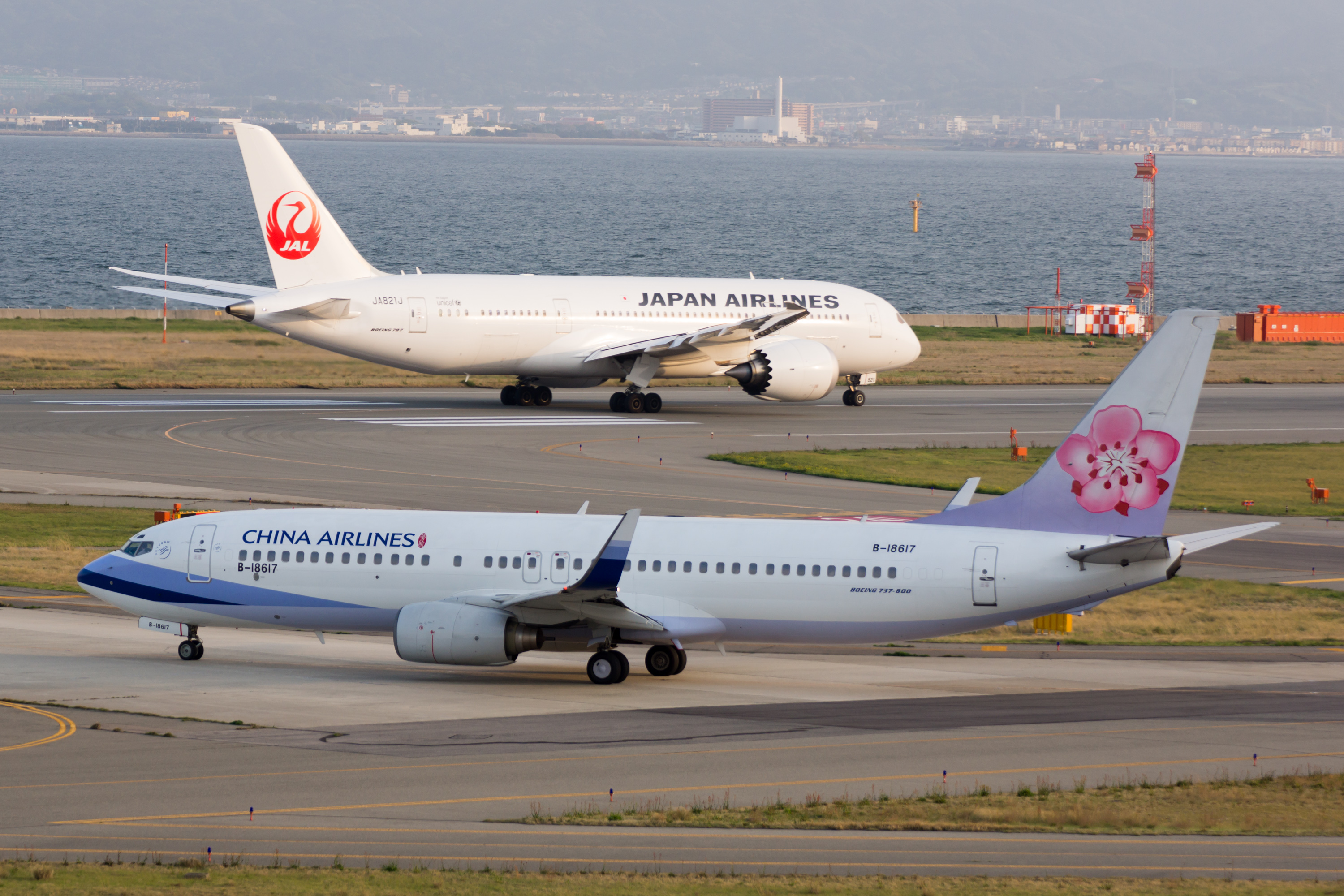 China Airlines Boeing 737-809